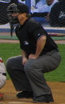 MLB umpire Tim McClelland - April 16, 2008.